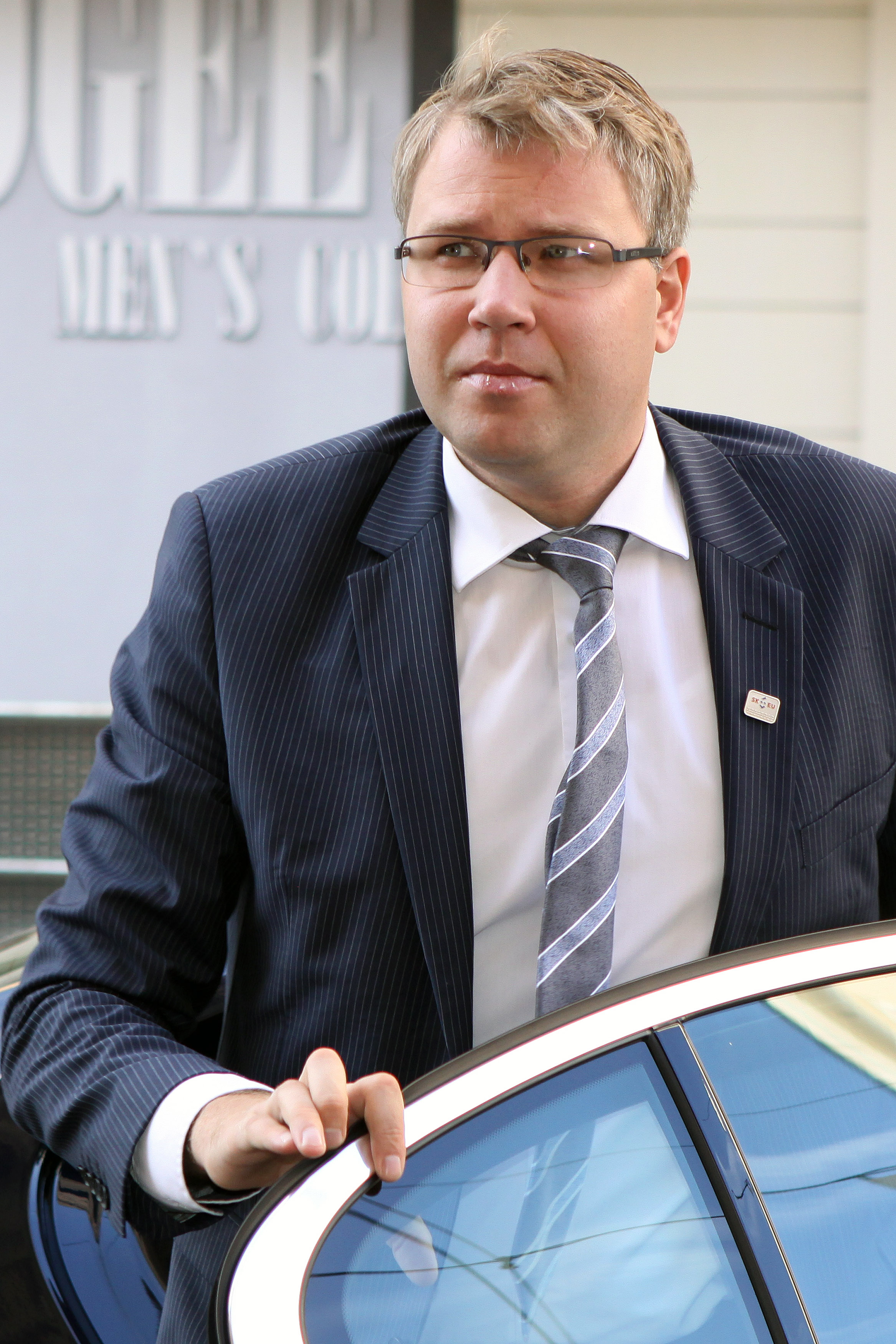 3rd Ministerial Conference of the Prague Process Photo: Andrej Klizan